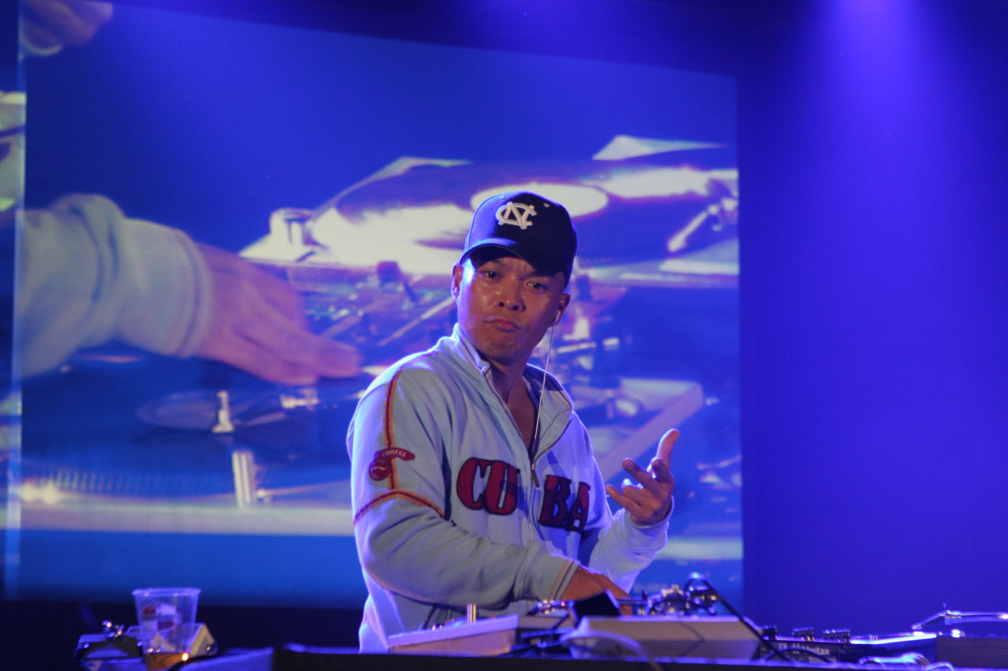 DJ Q-bert at the DMC World DJ Championships in Lyon, France.